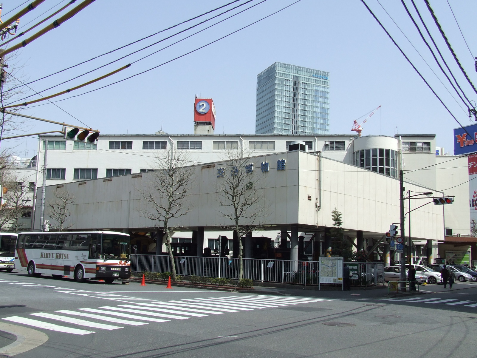 Building of Transportation Museum, Chiyoda, Tokyo, Japan